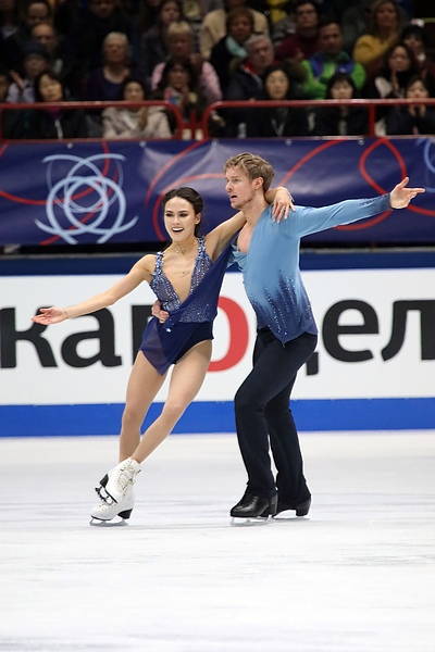 Madison Chock and Evan Bates at the 2018 World Championships